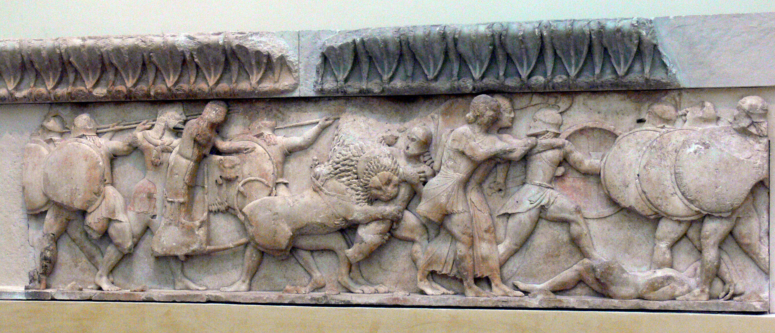 Ancient Greek Relief, Archaeological Museum of Delphi Sifnian treasury